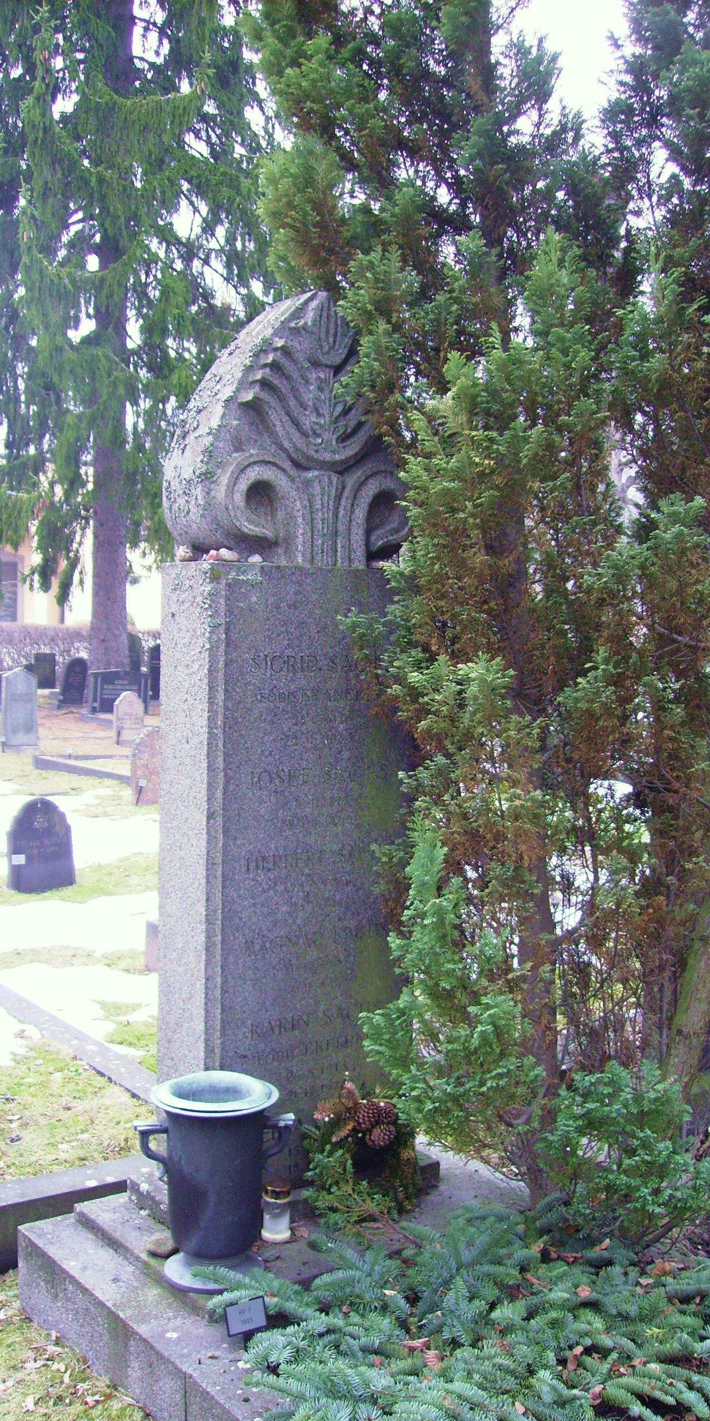 Picture of Josef and Ragnar Sachs's grave at Judiska norra begravningsplatsen in Solna